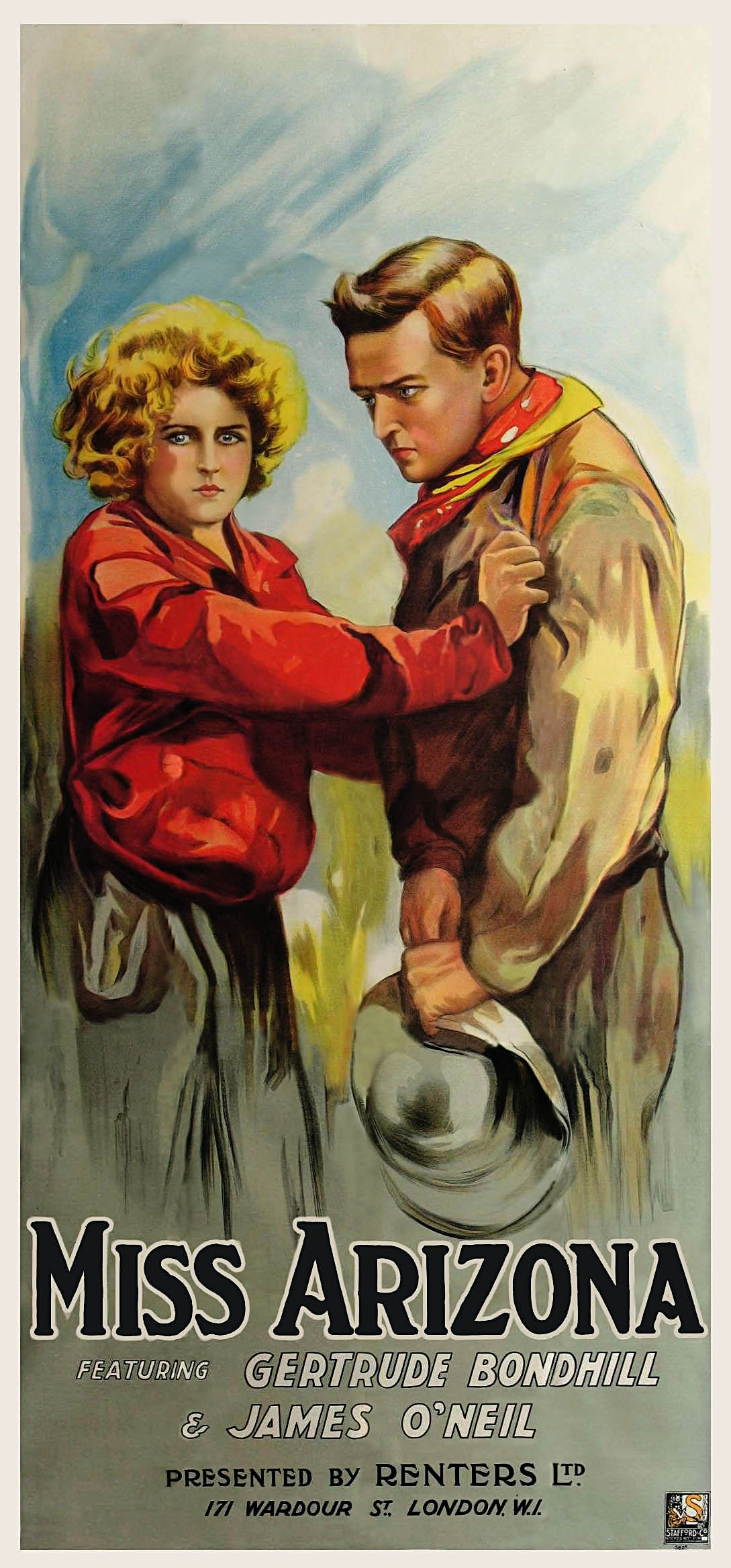 Miss Arizona, 1919 film by Art-O-Graf film company with Gertrude Bondhill and James O'Neill.